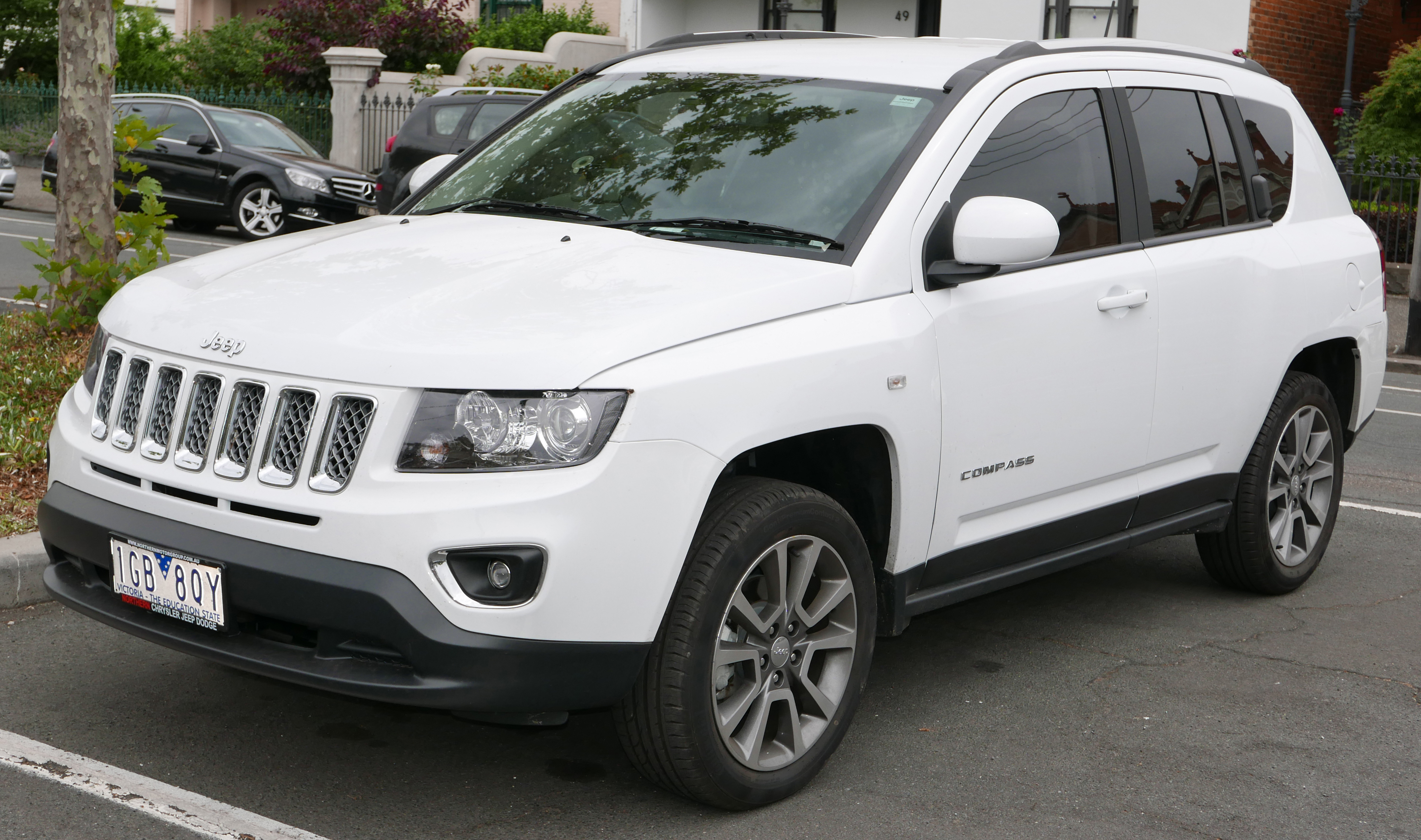 2015 Jeep Compass (MK MY16) Limited wagon. Photographed in Princes Hill, Victoria, Australia. Vehicle registration enquiry resultsJurisdictionVictoriaRegistration1GB8QYChassis code1C4NJDDB5FD236540Engine codeBFD236540Compliance date2015-10Year of manufacture2015